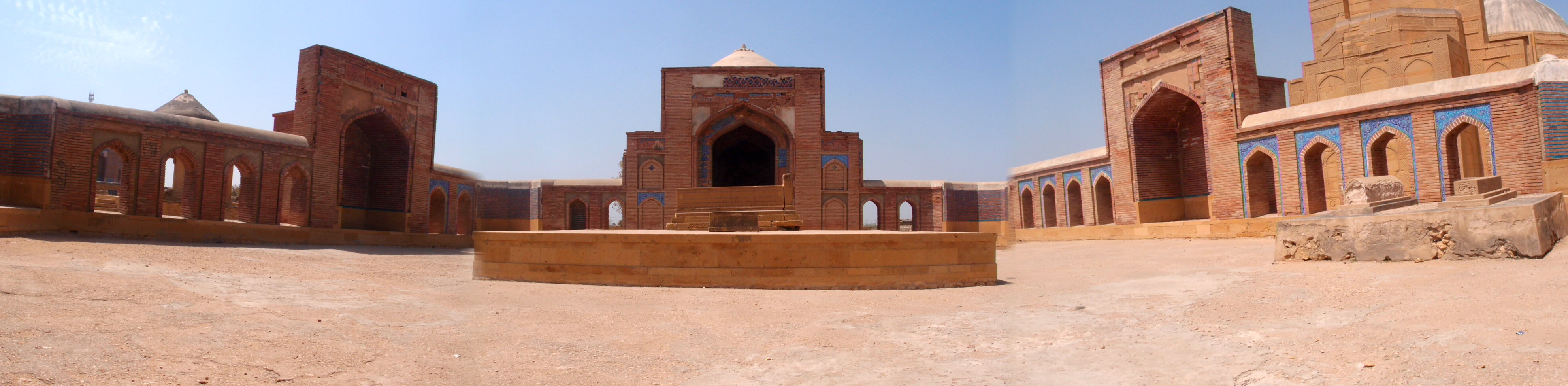 Makli